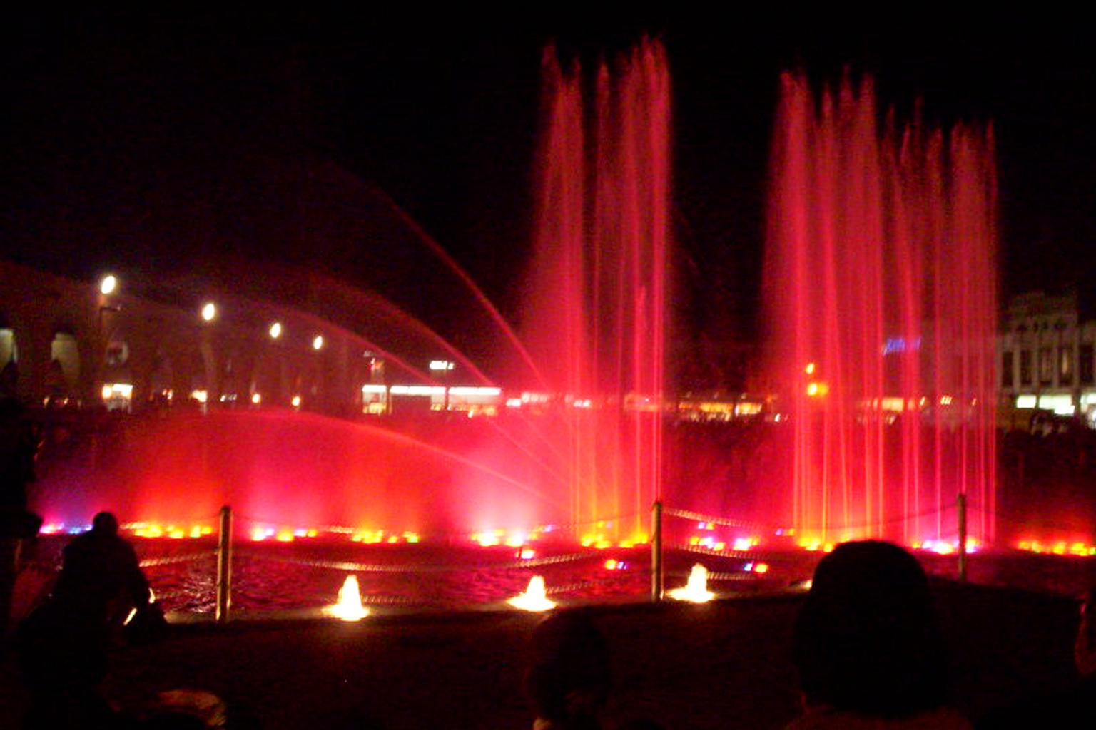 Fountain of Dancing Waters (on inauguration night).